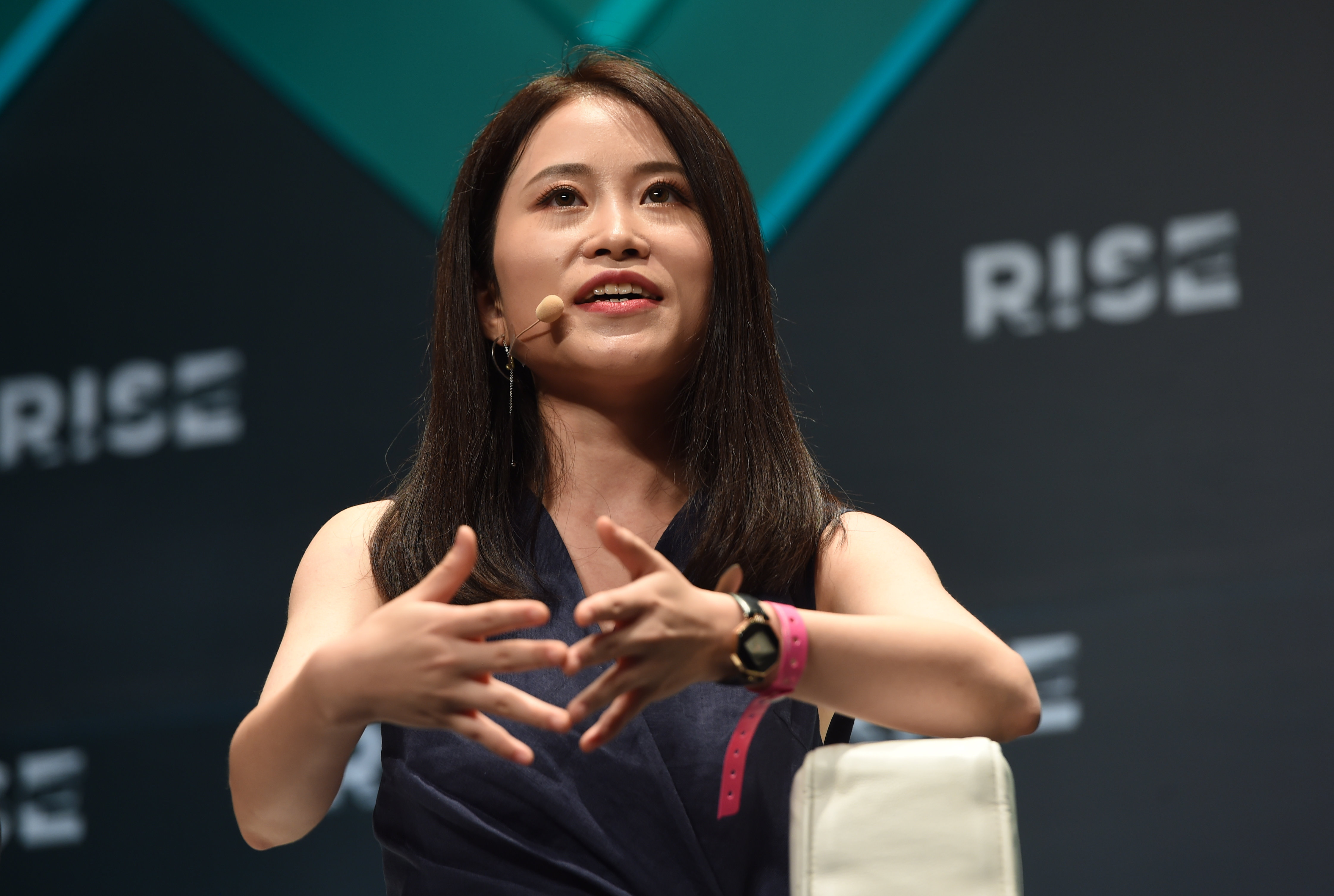 10 July 2018; Ms. Yeah, YouTube Star, Onion Group, on the PandaConf + creatiff Stage during day one of RISE 2018 at the Hong Kong Convention and Exhibition Centre in Hong Kong. Photo by Harry Murphy / RISE via Sportsfile